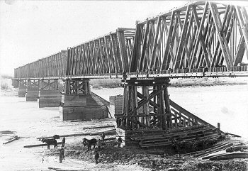 Construction of the Qu'appelle, Long Lake and Saskatchewan (QLLS) Railway Bridge across the South Saskatchewan River, in the present-day city of Saskatoon, Saskatchewan, Canada.